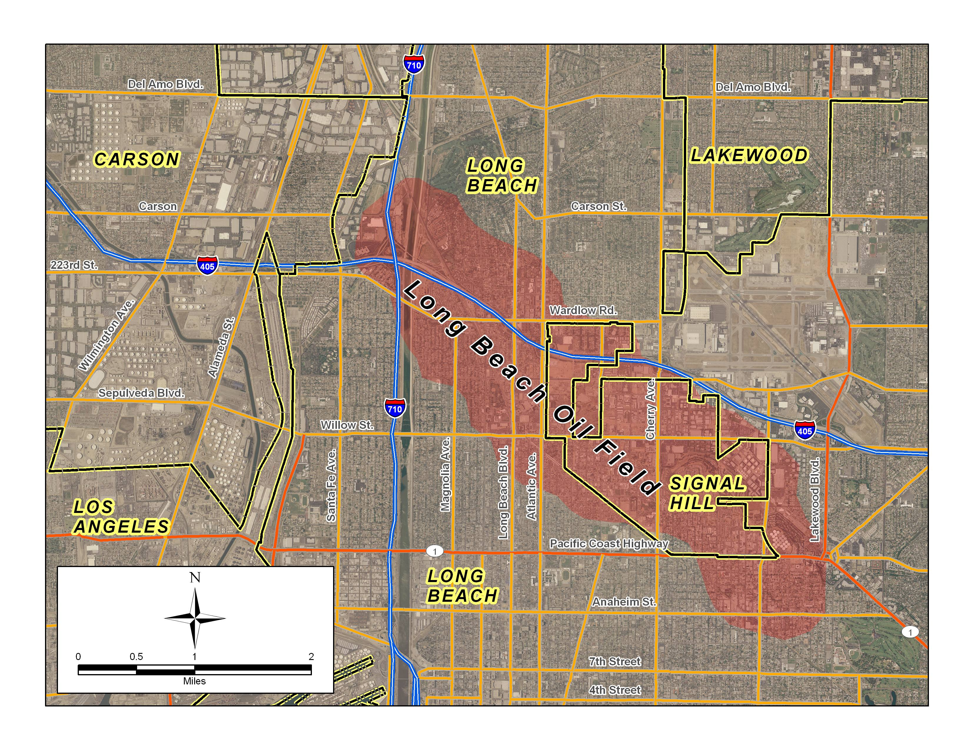 Detail of Long Beach Oil Field within cities, with roads, etc., by self in ArcGIS, using only public domain data